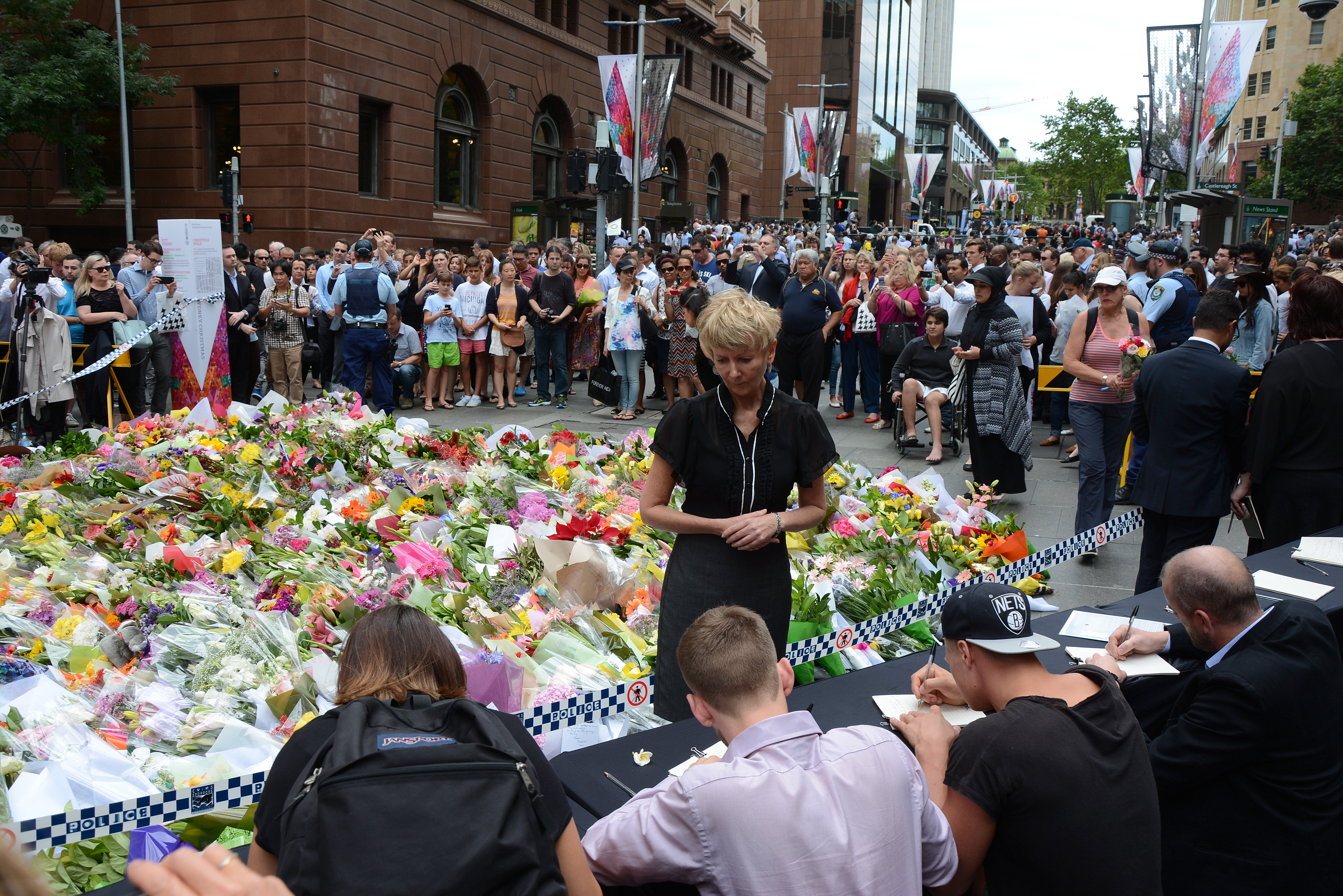 People signing condolences books after Lindt Café siege, Martin Place, Sydney, 2014-12-16